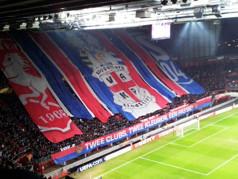 Atmosphere before the match FC Twente - FC Schalke 04 (Banner: Two clubs, two colors, one passion!)